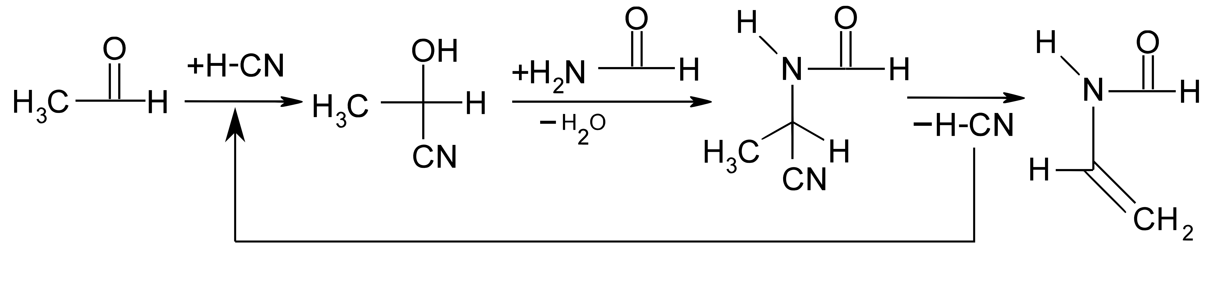 The technical synthesis of N-vinyl formamide (BASF process)